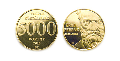 Ferenc Erkel, coin, gold, struck, 2010. Designer: Laszlo Szlavics, Jr.